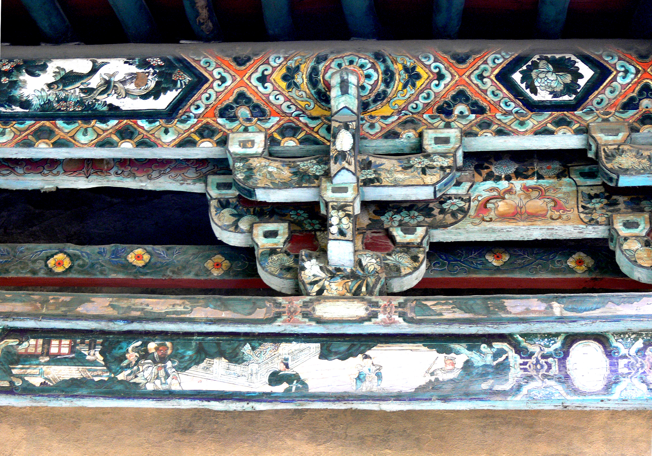 Song dynasty style color paint in Jinci